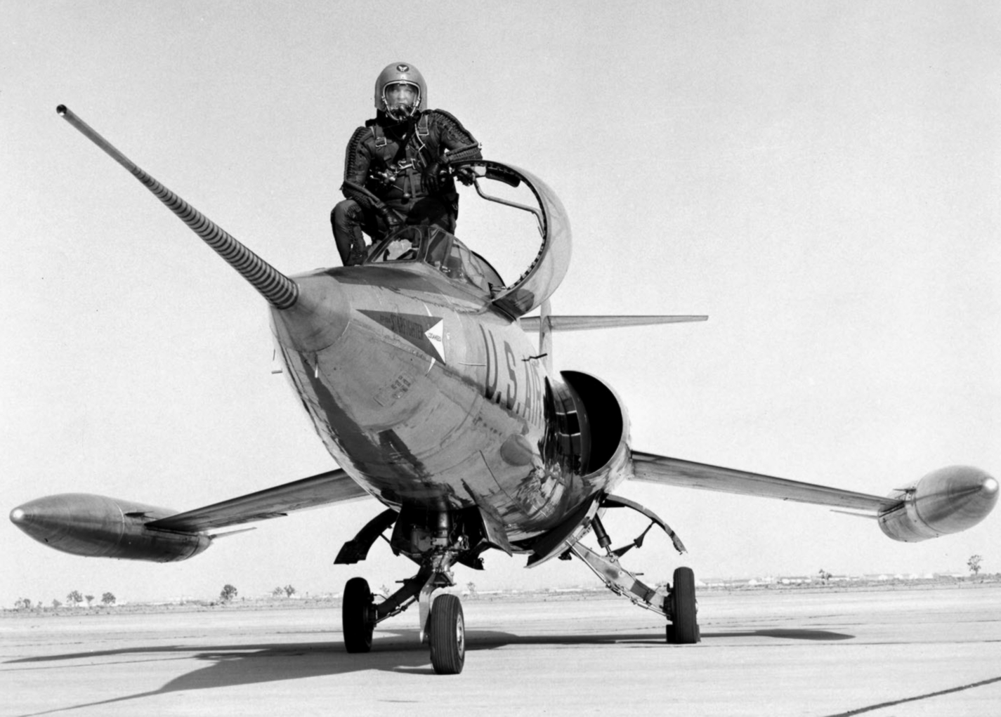 Lockheed test pilot Tony LeVier with an XF-104 Starfighter.